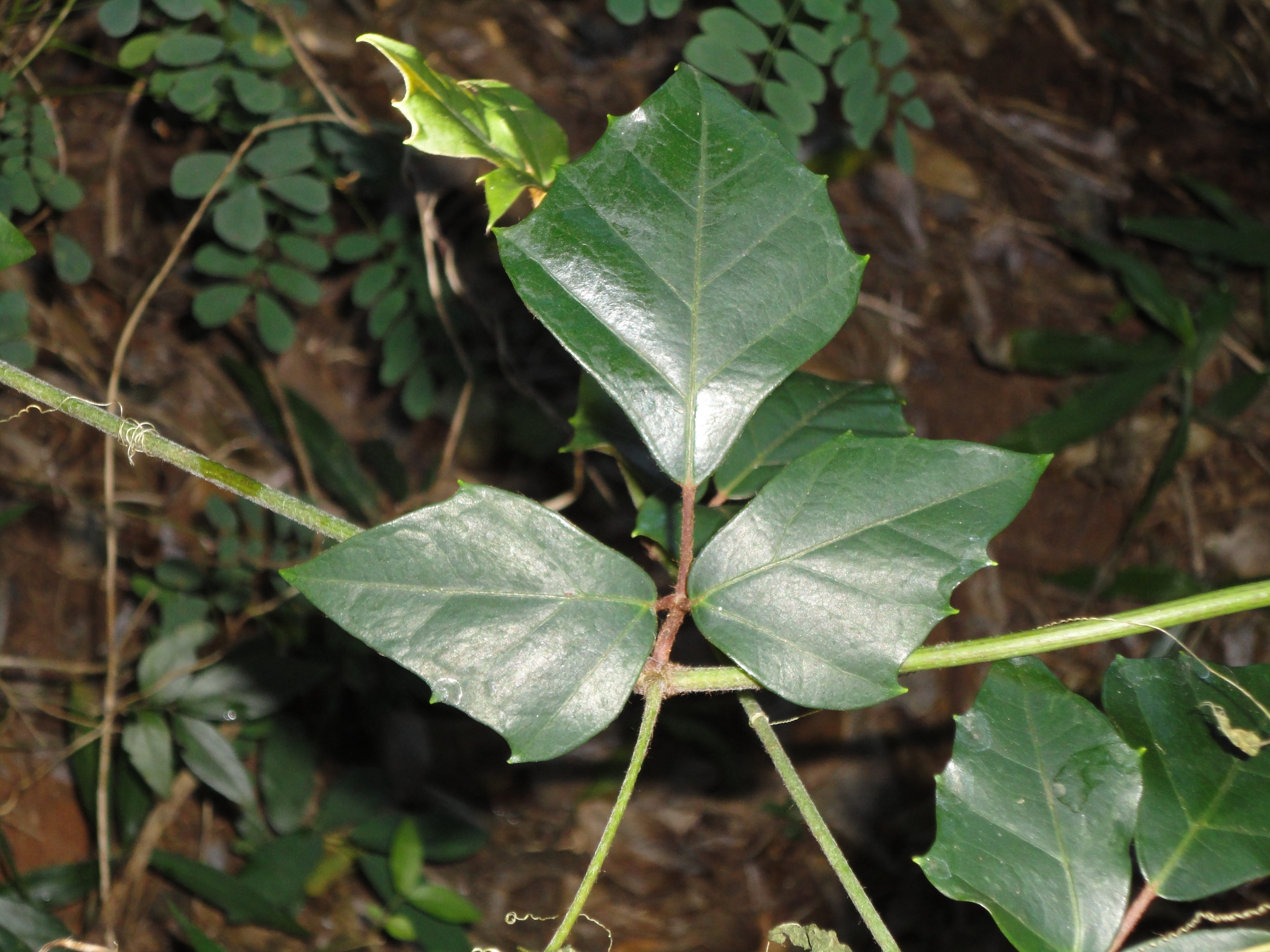 Bastard Forest Grape in Burman Bush Nature Reserve, Durban